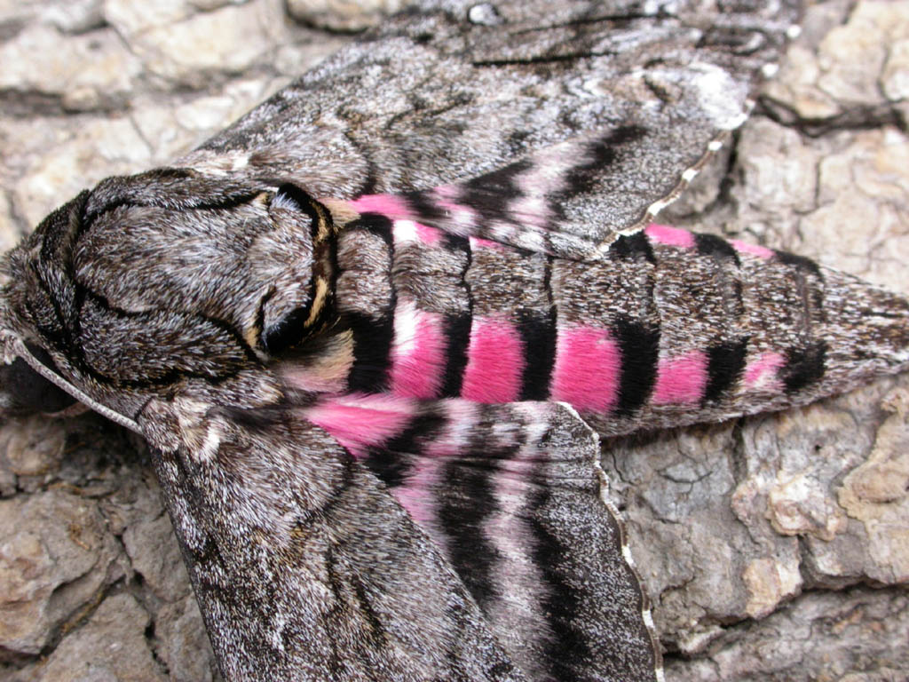 Pink-spotted Hawkmoth, Agrius cingulatus, imago (adult), showing pink pattern on abdomen, Durham, North Carolina, United States